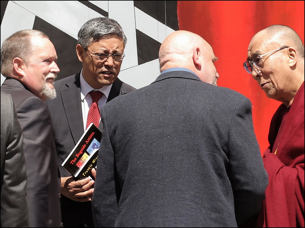 The Bogside Artists with the Dalai Lama in Maribor Slovenia at the unveiling o their mural May 2012. The Dalai Lama's secretary holds in his hands two books presented to the Dalai Lama by the artists - the book they wrote on their murals "The People's Gallery" and the book written by one of the artists that is the subject of much controversy with J.K. Rowling - "Travels with Li Po". Written in 1990 it is about a boy sorcerer.